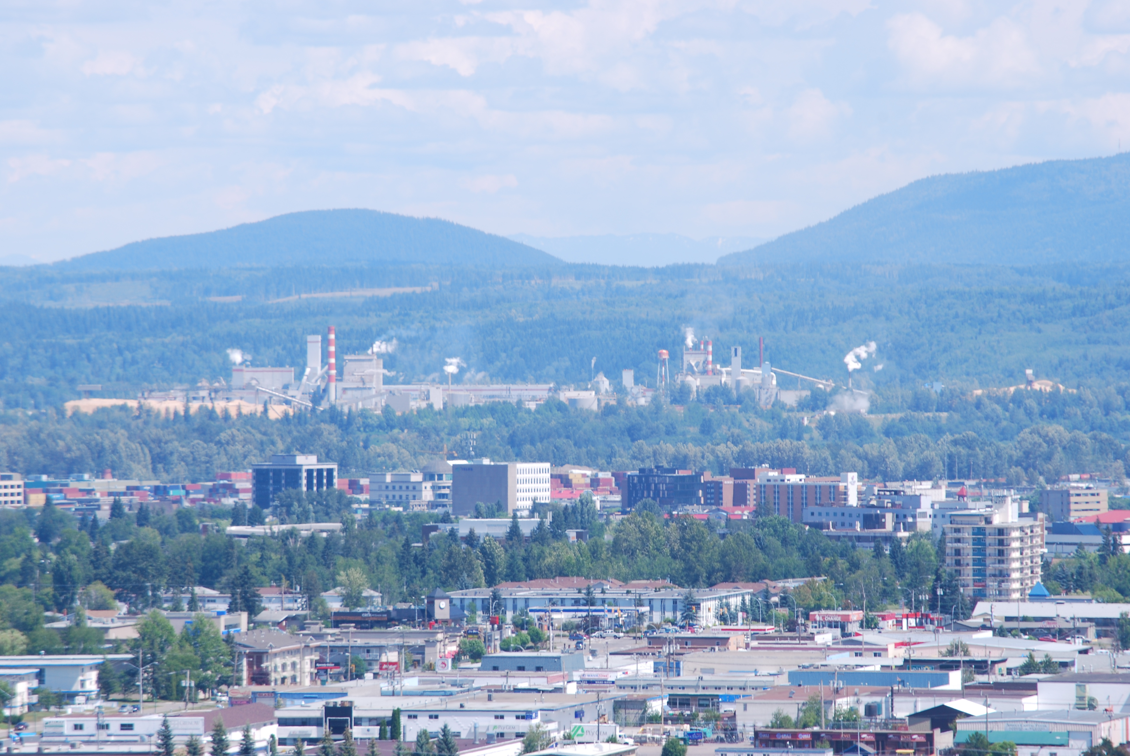 View of downtown Prince George from University Way